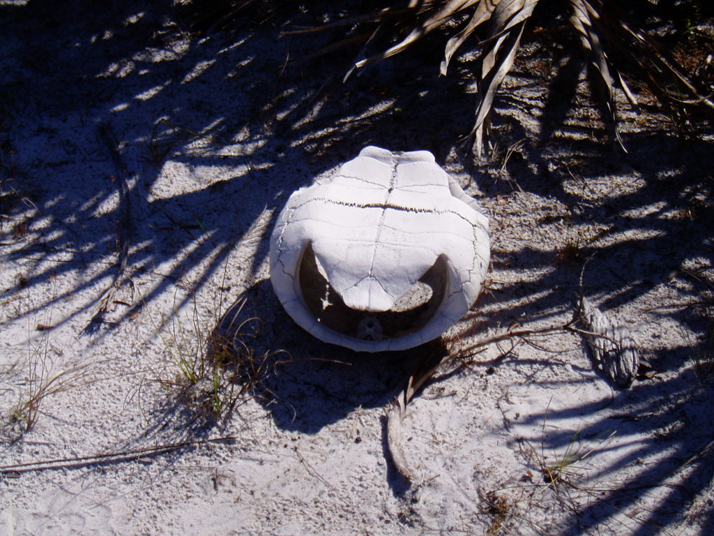 Bleached shell of a dead Gopher Tortoise, taken at Platt Branch Mitigation Area near Venus, Highlands County, Florida.